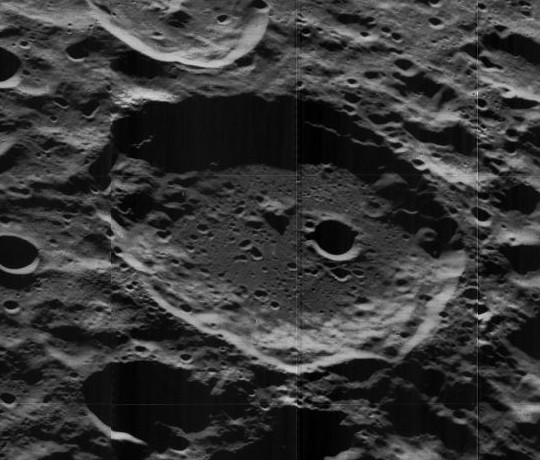 Oblique view of Millikan, on the far side of the moon, facing west.